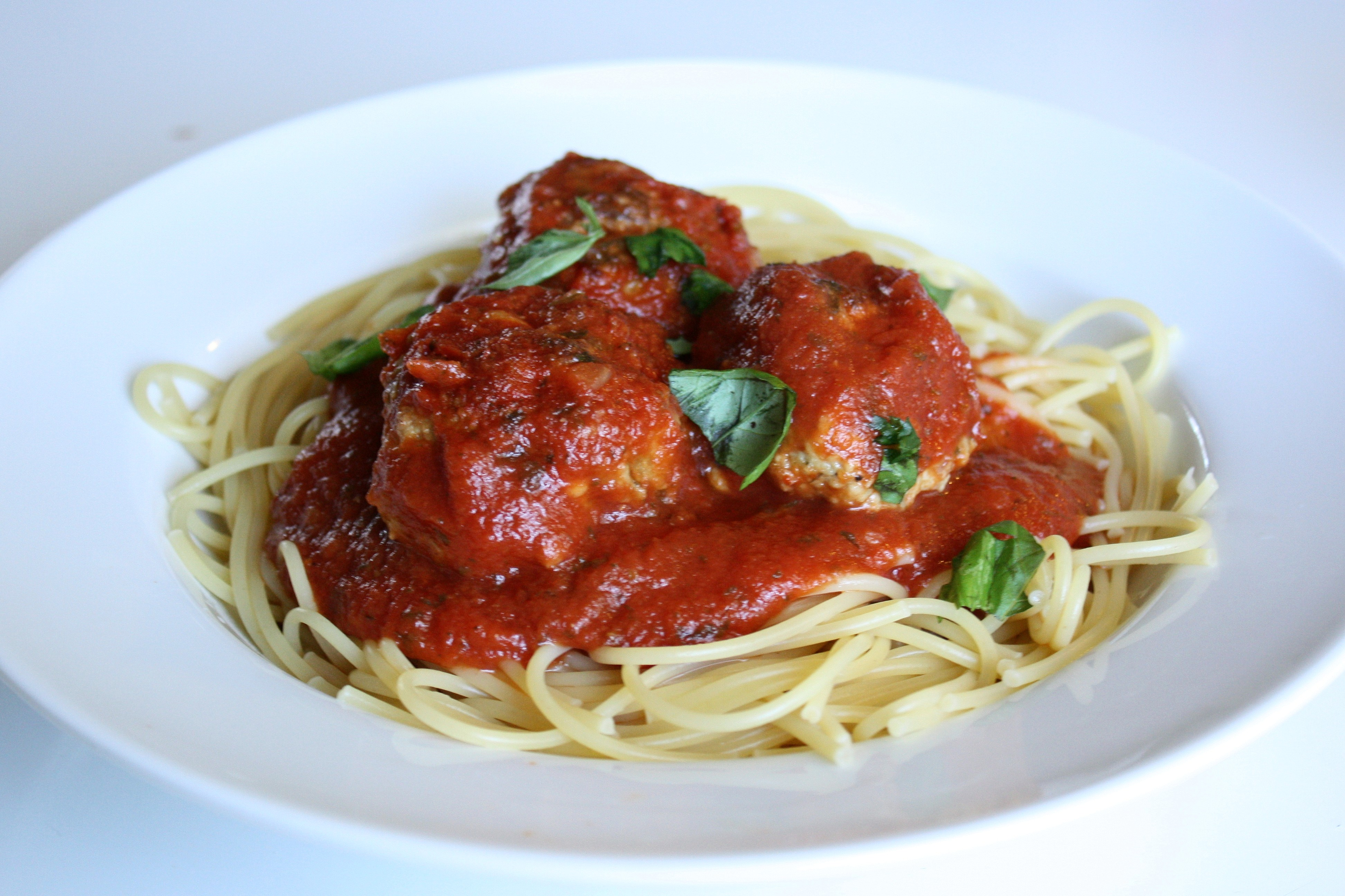 Spaghetti and turkey meatballs